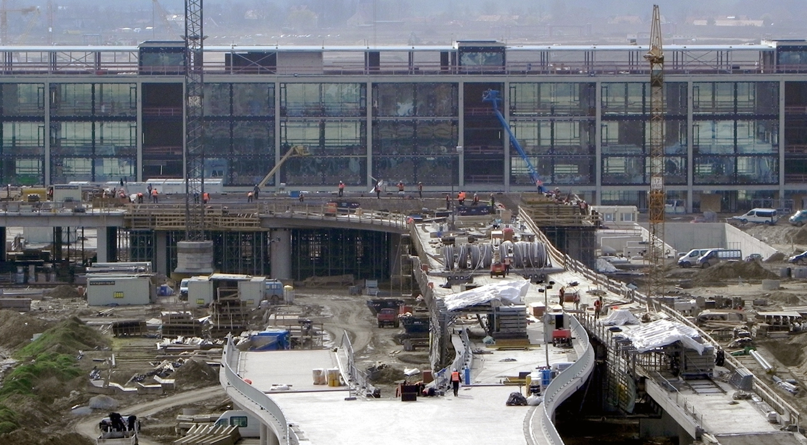 Construction ground Berlin Brandenburg Airport